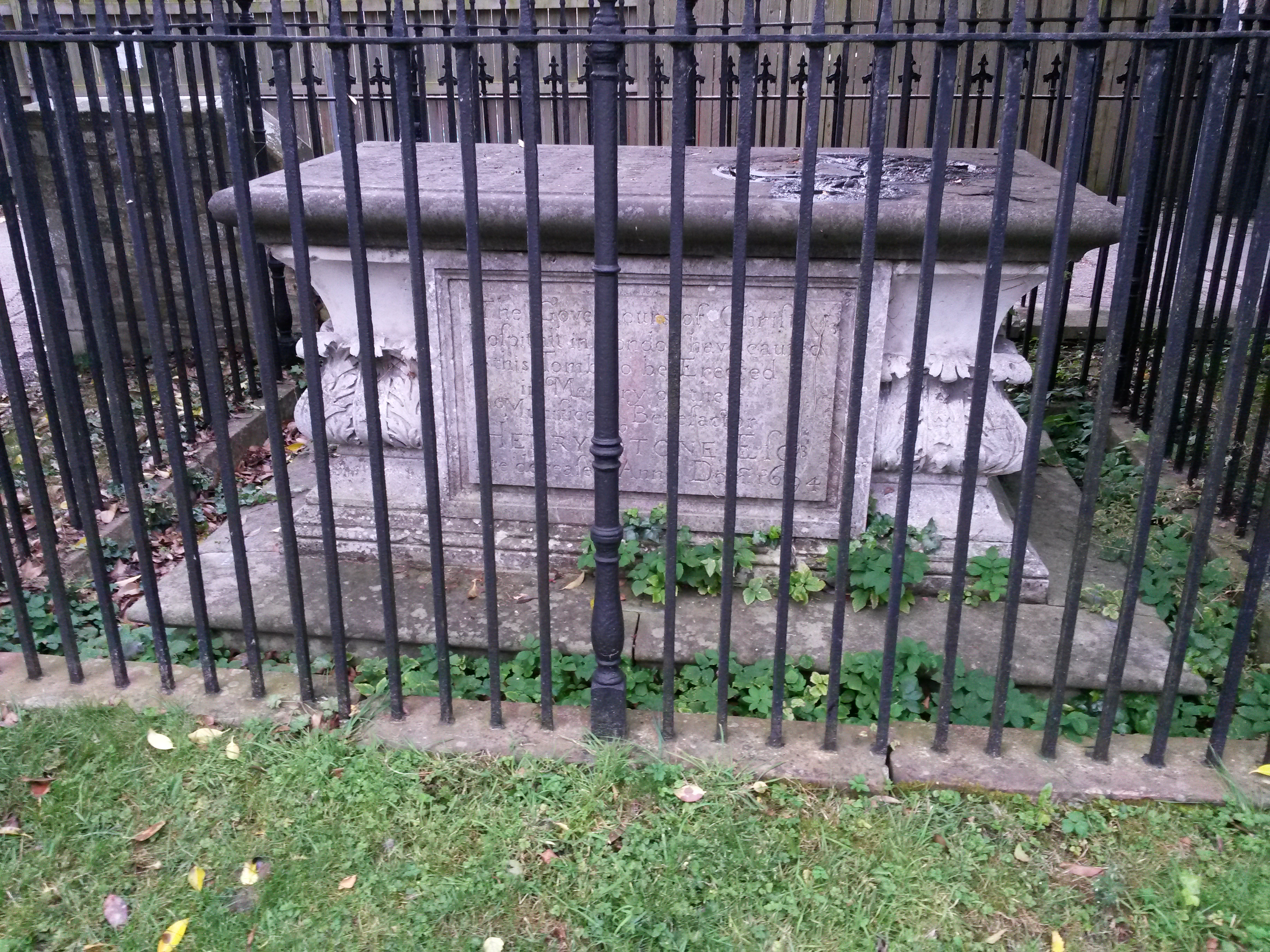 Tomb of local philanthropist Henry Stone, of Skellingthorpe, Lincolnshire.